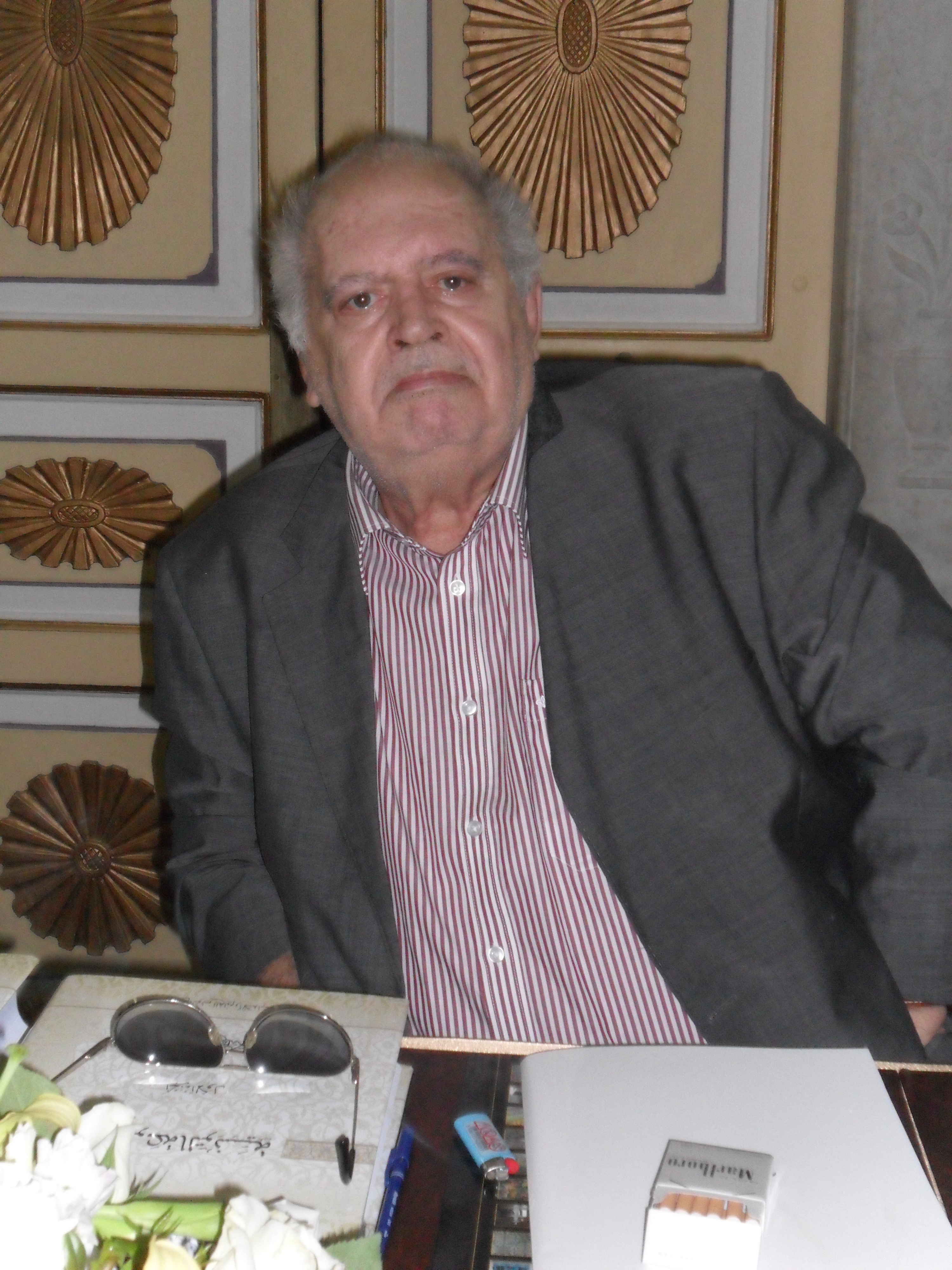 Hichem Djait (1935- ), Tunisian historian and philosopher